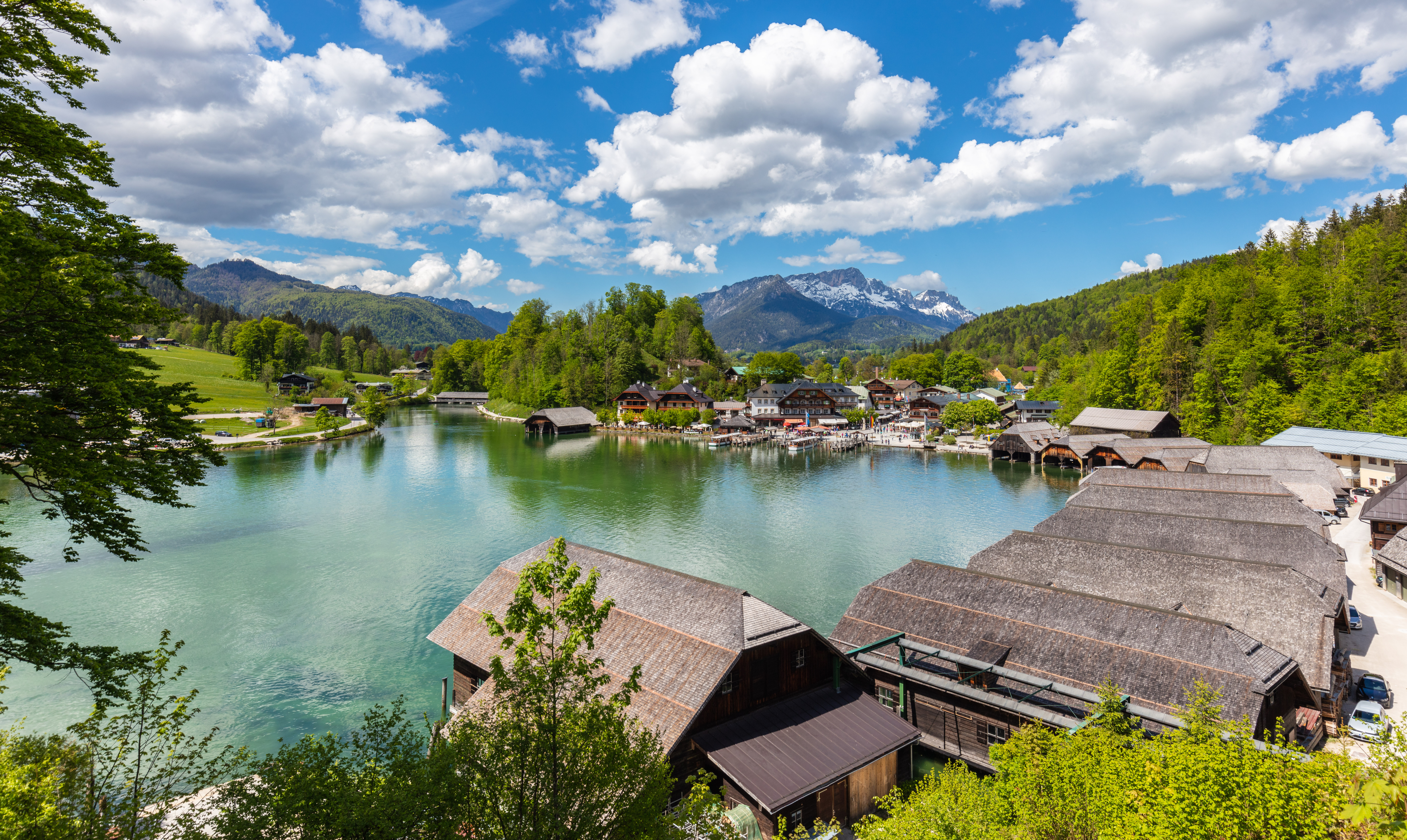 Schönau am Königssee, Germany